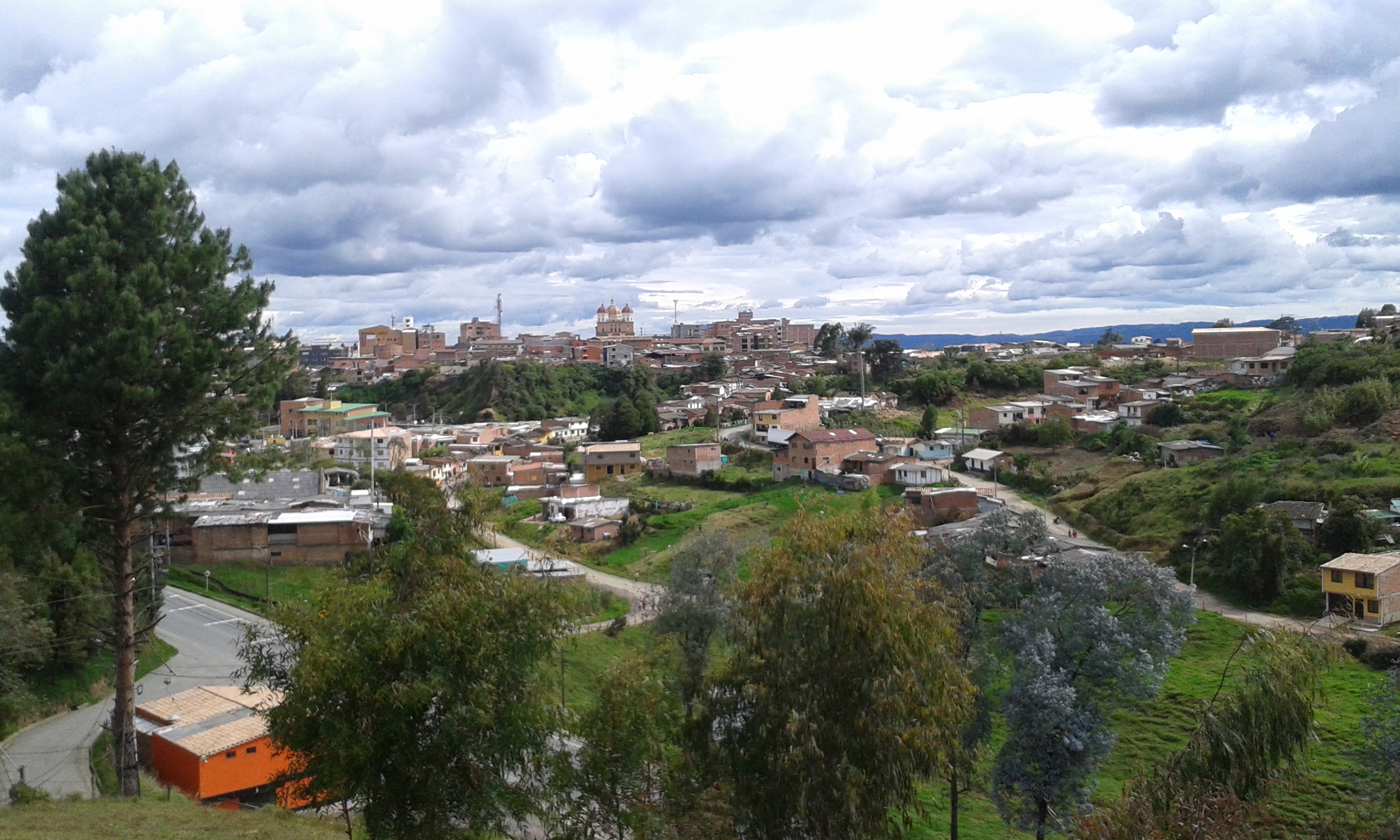 Fragmento de Santa Rosa de Osos